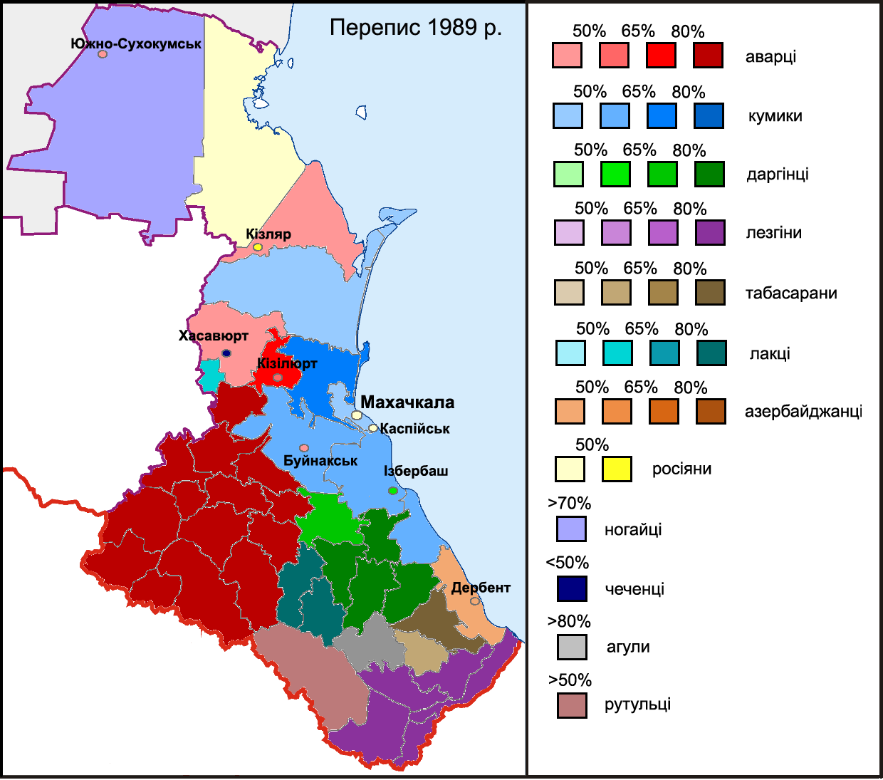 Ethnic groups in Dagestan according to 1989 Soviet Census.